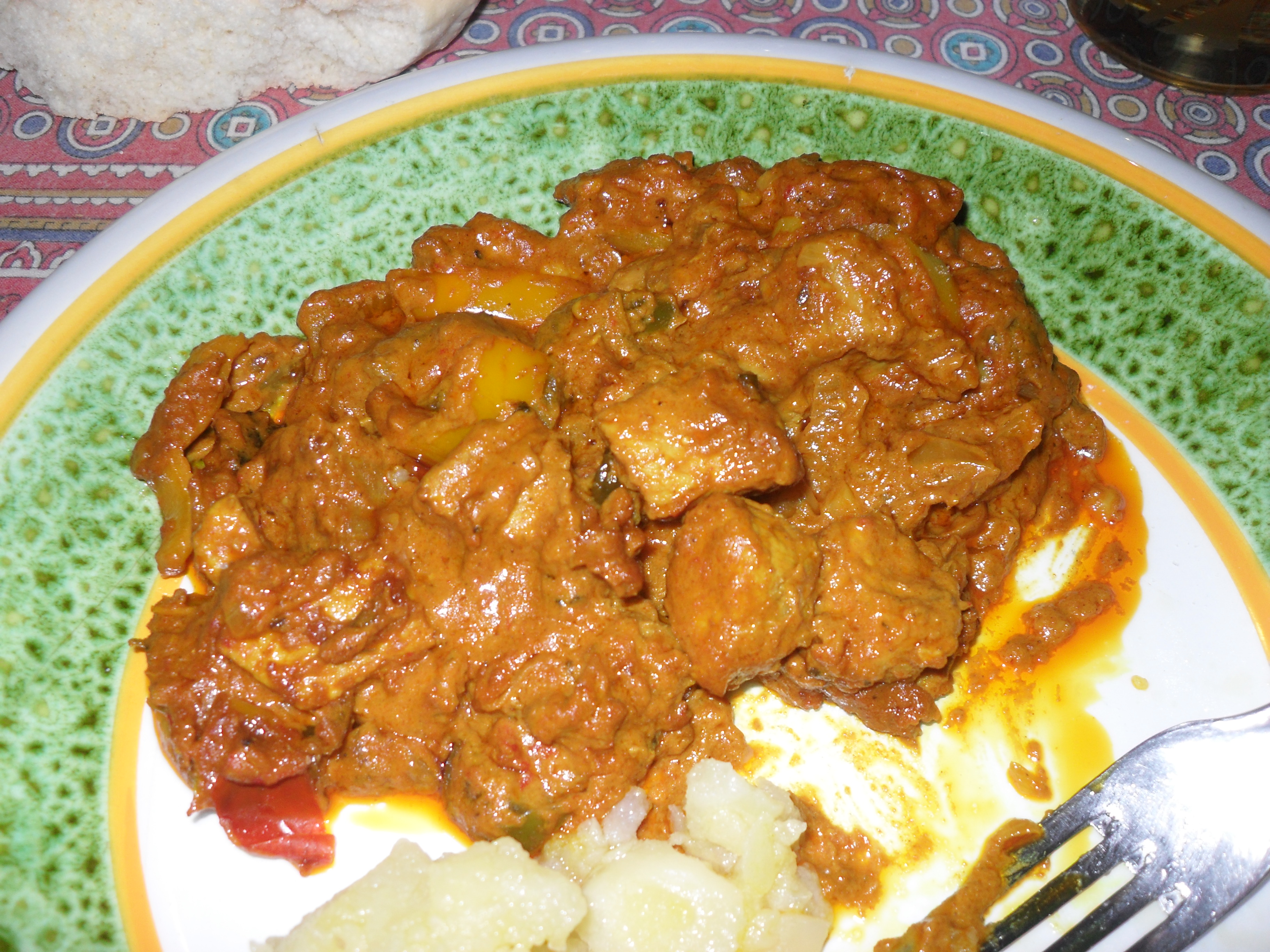 Chicken tikka masala from Italy, served with boiled potatoes